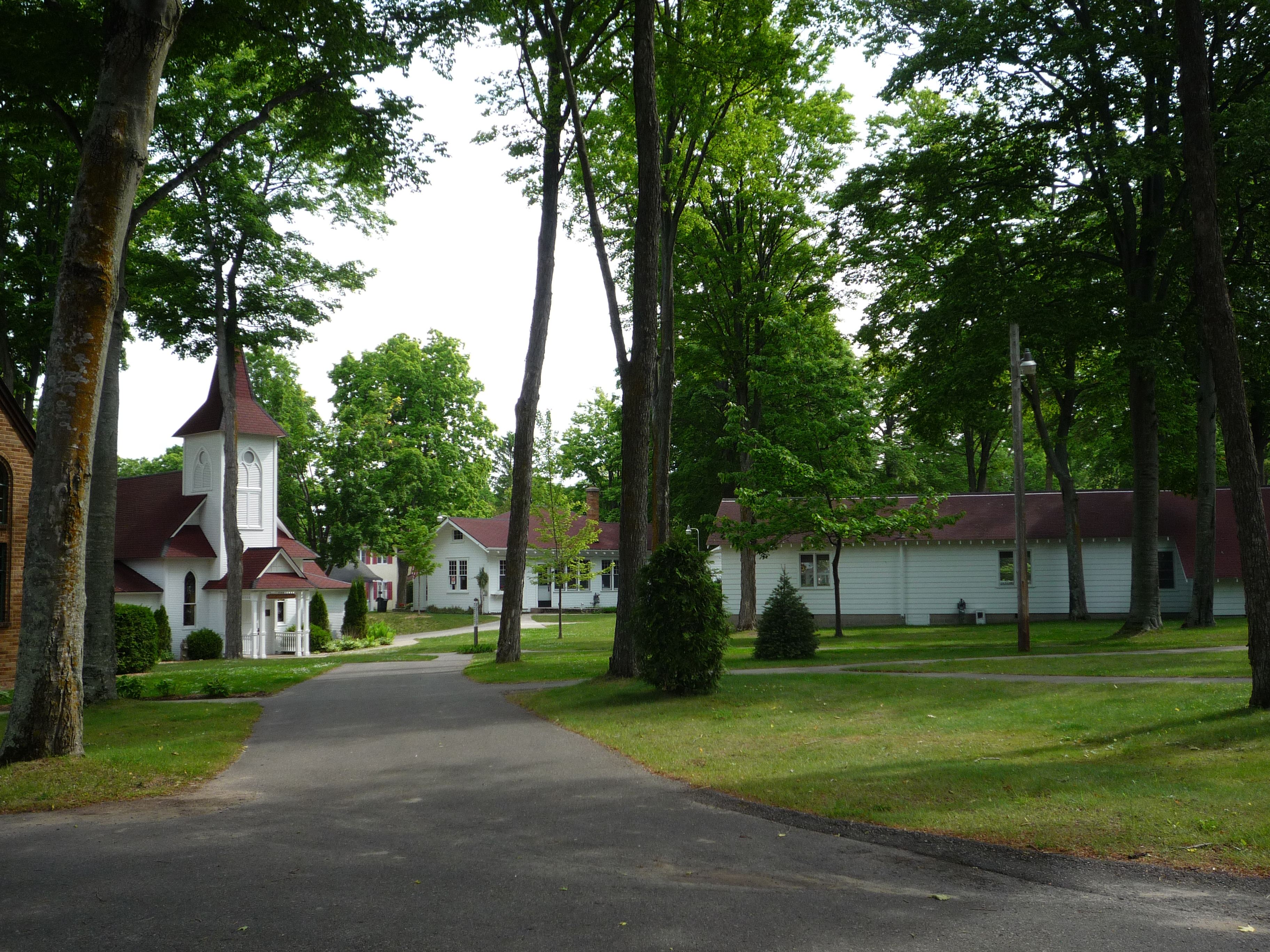 The Chapel and main grounds of Bay View, Michigan, USA. Founded in 1875, Bay View is a religious resort community, an early version of a middle-to-upper class American resort.